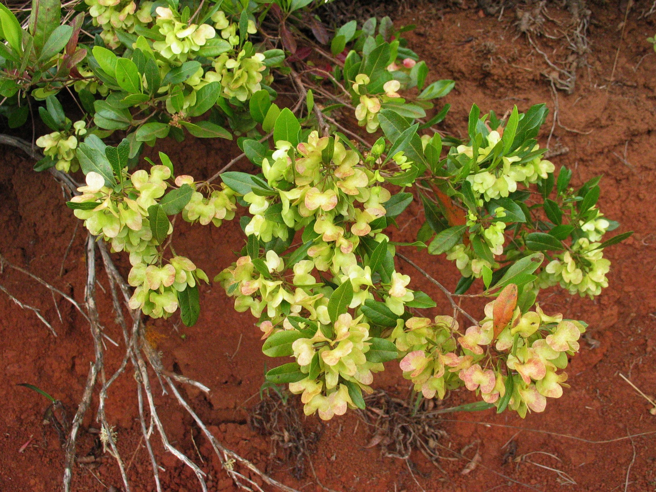 ʻAʻaliʻi or Hawaiian hopseed bush Sapindaceae Indigenous to the Hawaiian Islands Kānepuʻu, Lānaʻi